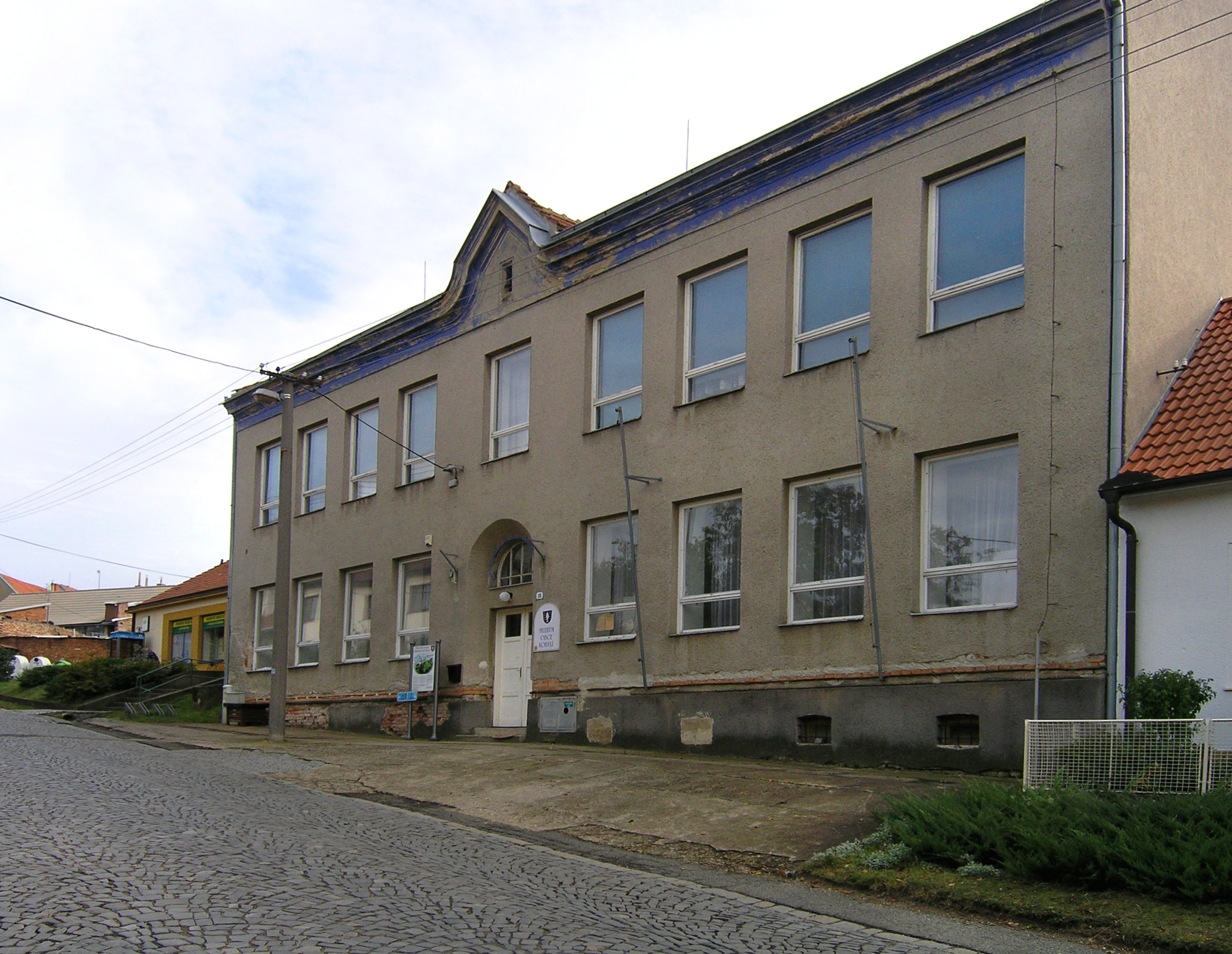 Local museum of Kobylí village, Czech Republic